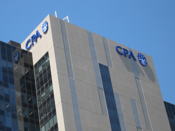 Photo of CPA Australia branding on the building the head office is located in, Melbourne Australia